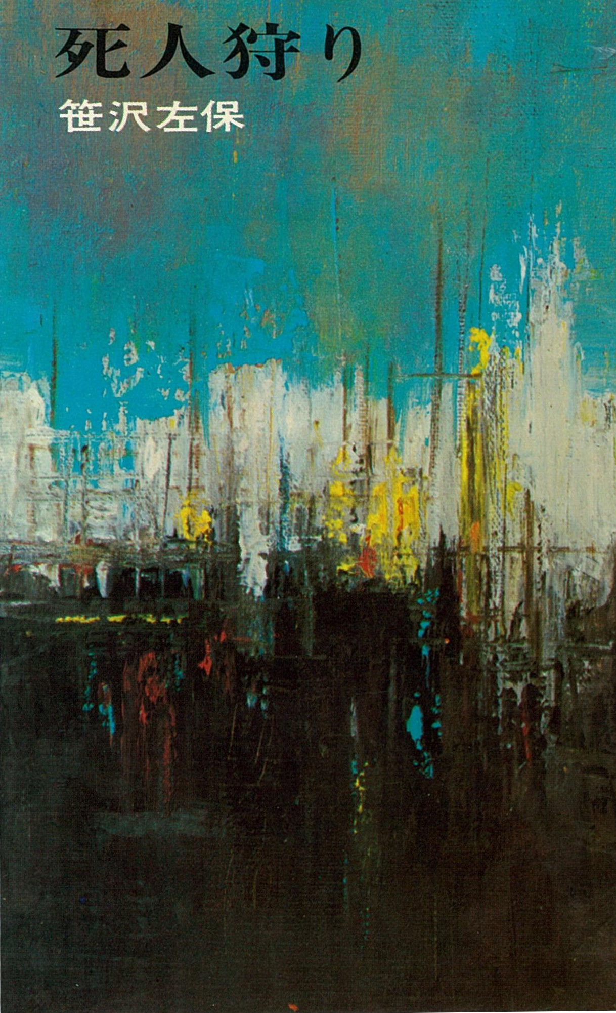 japanese writer saho sasazawa's mistery novel "sibito gari" first edition in 1965. cover painted by sin mimasa